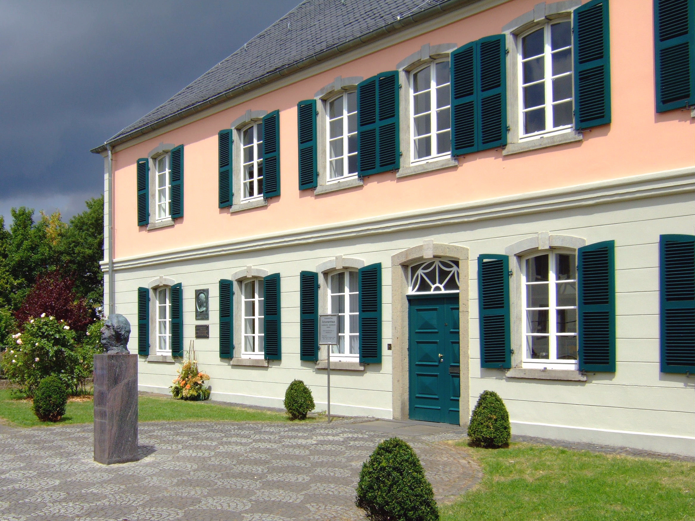 The private psychiatric clinic in which Robert Schumann died -now the Robert-Schumann-house in Bonn-Endenich